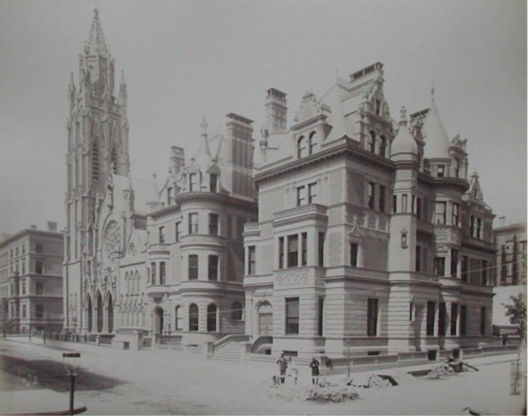 Looking west across 5th Avenue and 54th at 684 Fifth Avenue, which was built as wedding gift of William H. Vanderbilt for his daughter Florence and her husband Hamilton Twombly. The other mansion (left) at 680 was the home of William Seward Webb and Vanderbilt's other daughter Eliza. A Look at Landmarks Present and Past